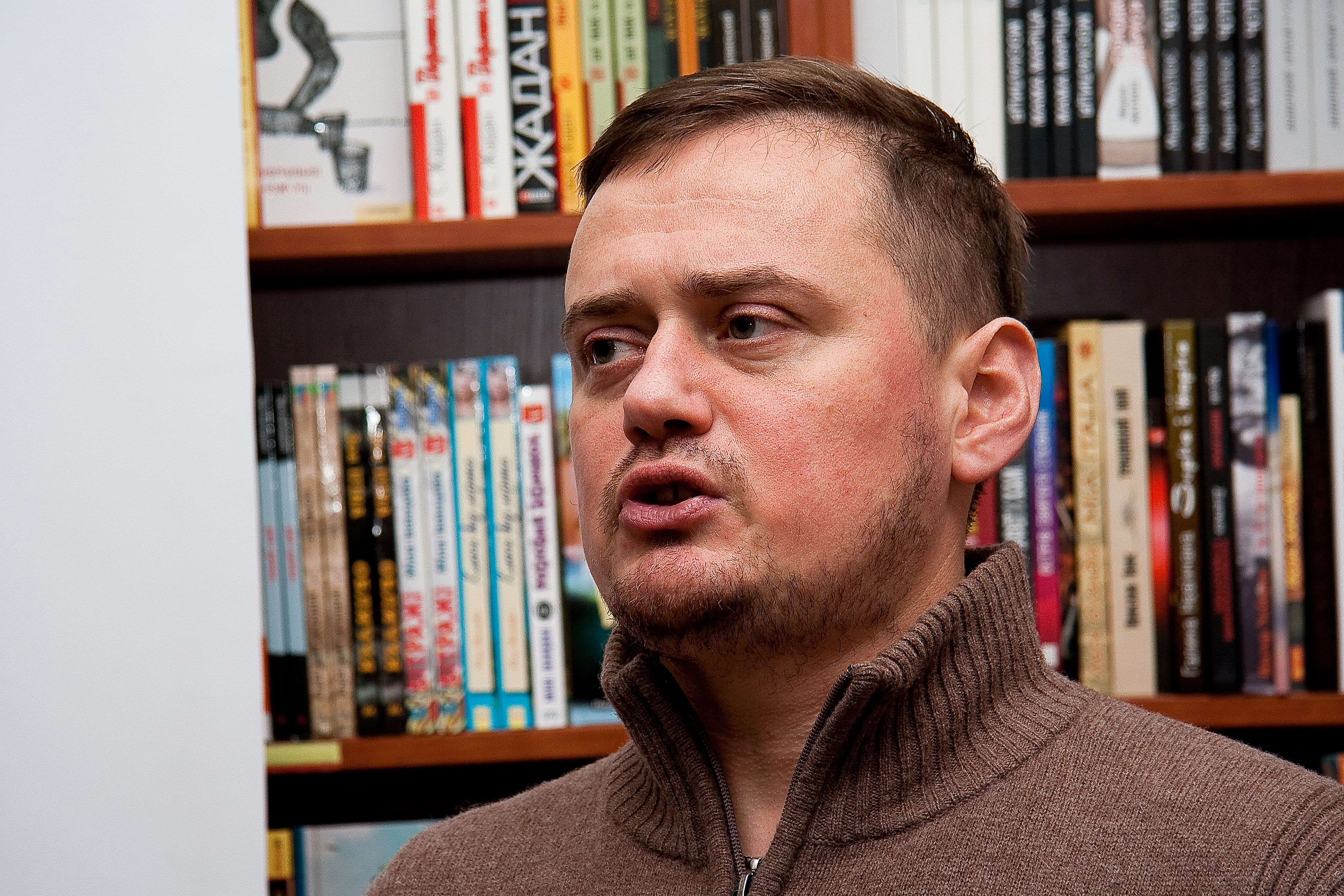 writer andriy kokotyukha in Vinnitsya, december 2012